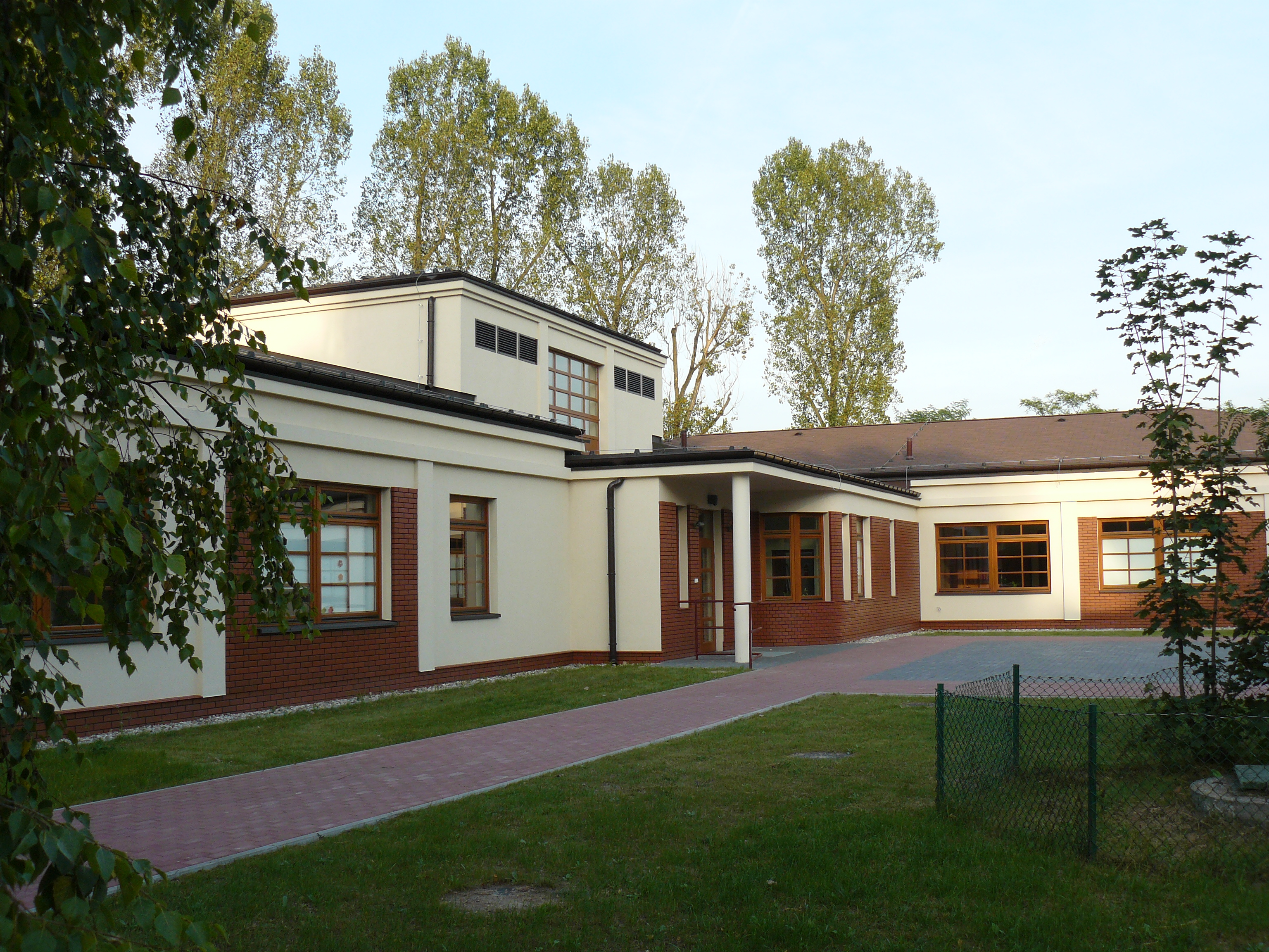 School for blind children in Laski, Poland